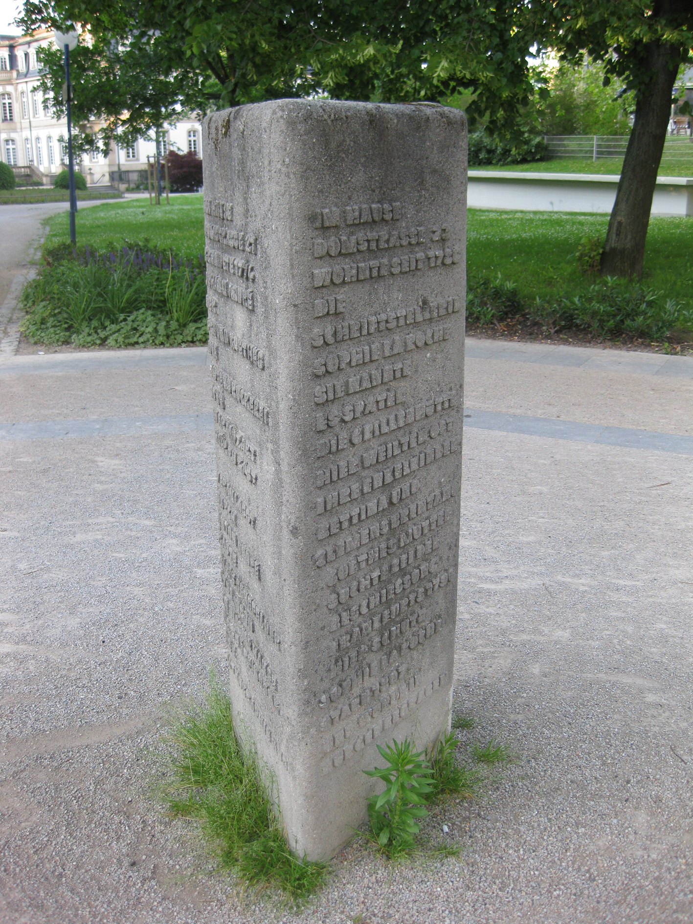 Büsingpark Offenbach